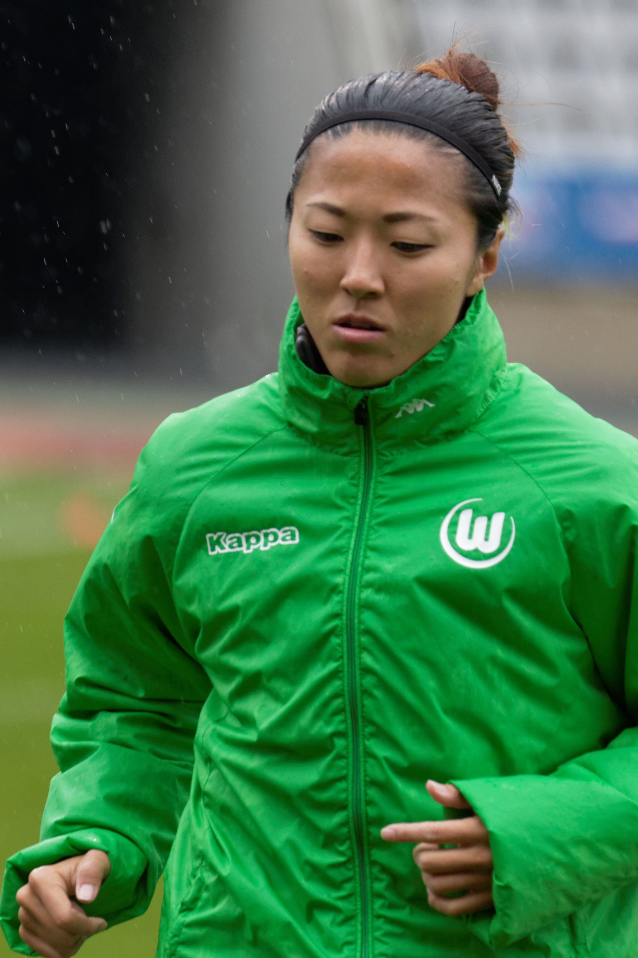 UEFA Women's Champions League, PSG - Wolfsburg, 26 April 2015.